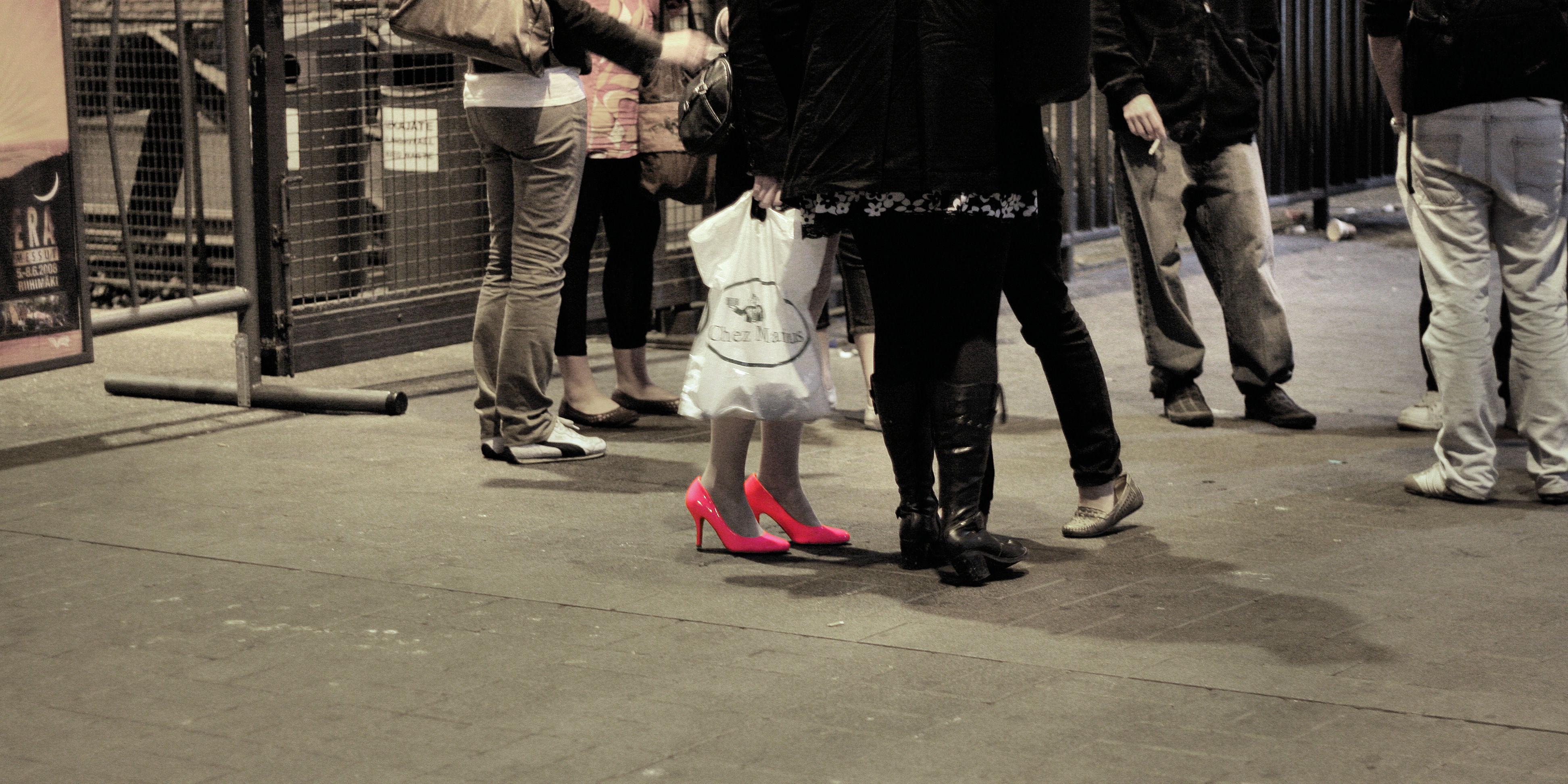 A young woman wearing pink high-heels at Helsinki Central railway station, Finland.